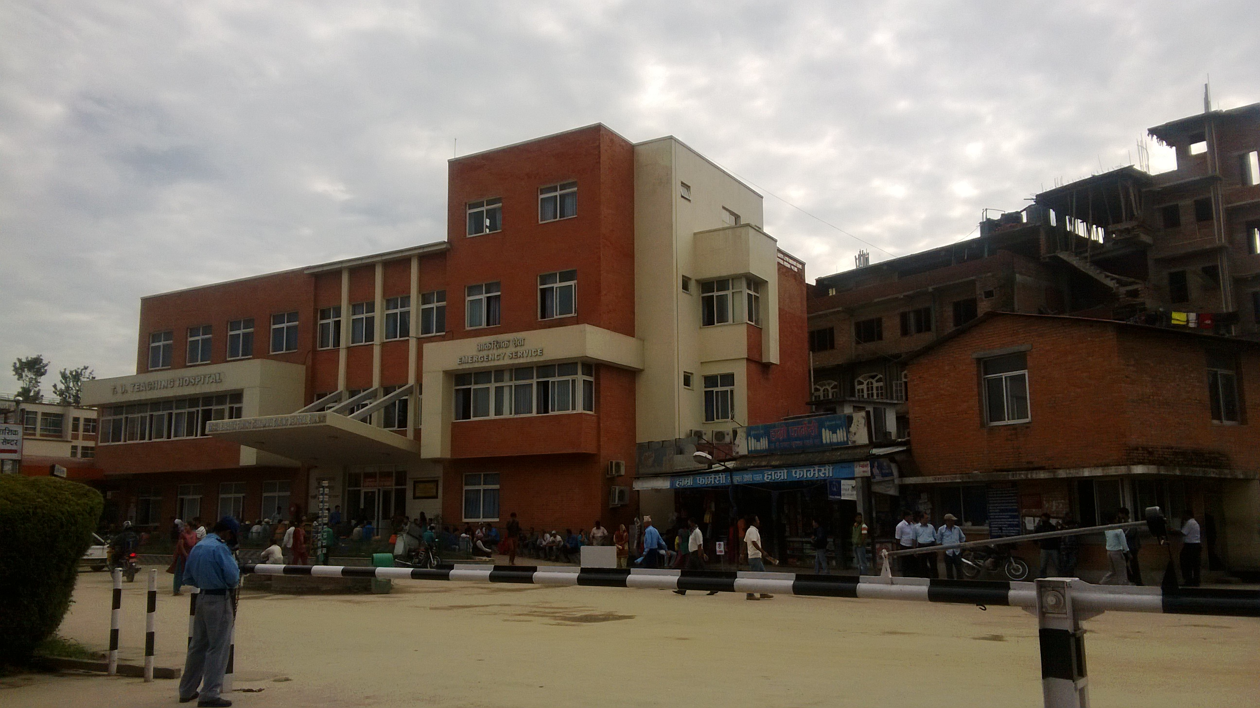 Tribhuwan University Teaching hospital Emergency Hall.